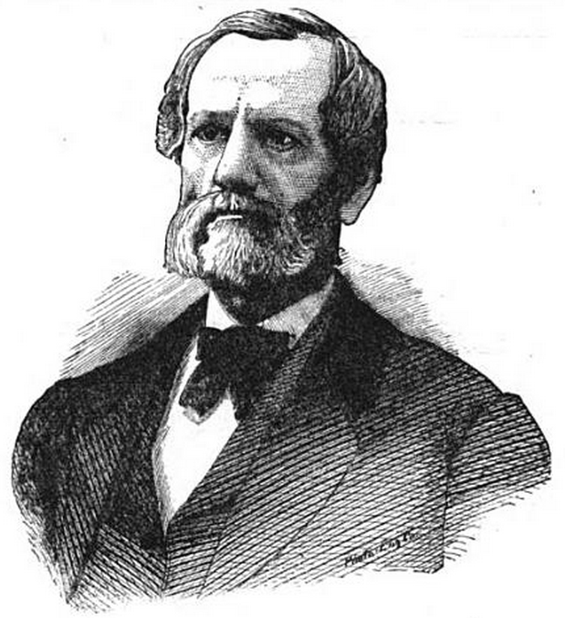 Engraving of Michigan Governor William L. Greenly